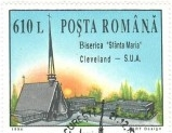 Biserica Sf. Maria, Cleveland, SUA